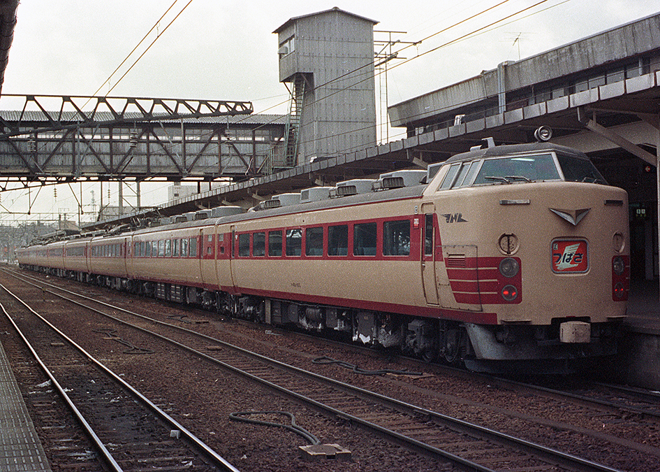 JNR 485 series EMU on a Tsubasa service at akita station